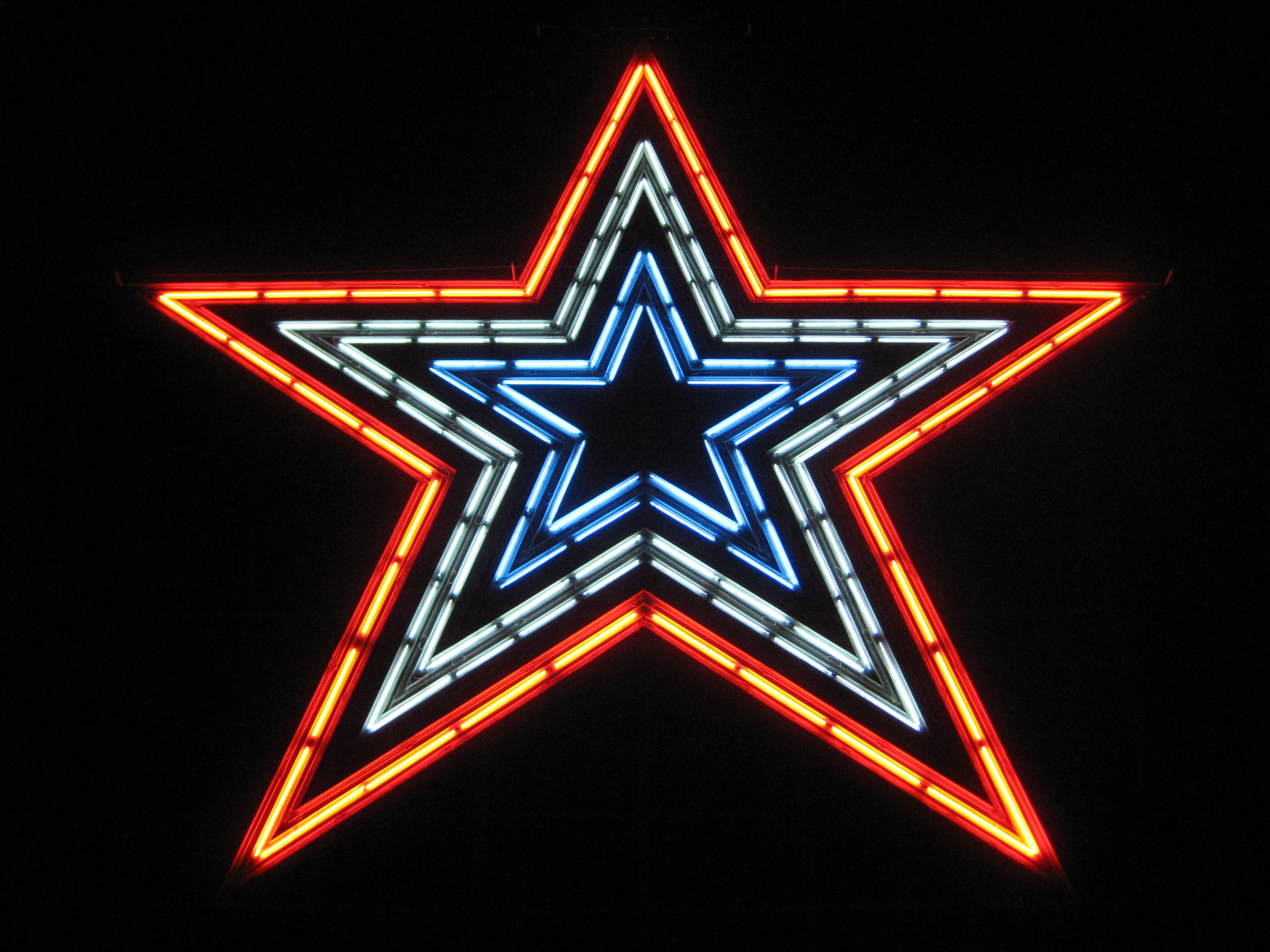 Red, white, and blue variations of neon tubing illuminate the Mill Mountain Star over Roanoke, Virginia.